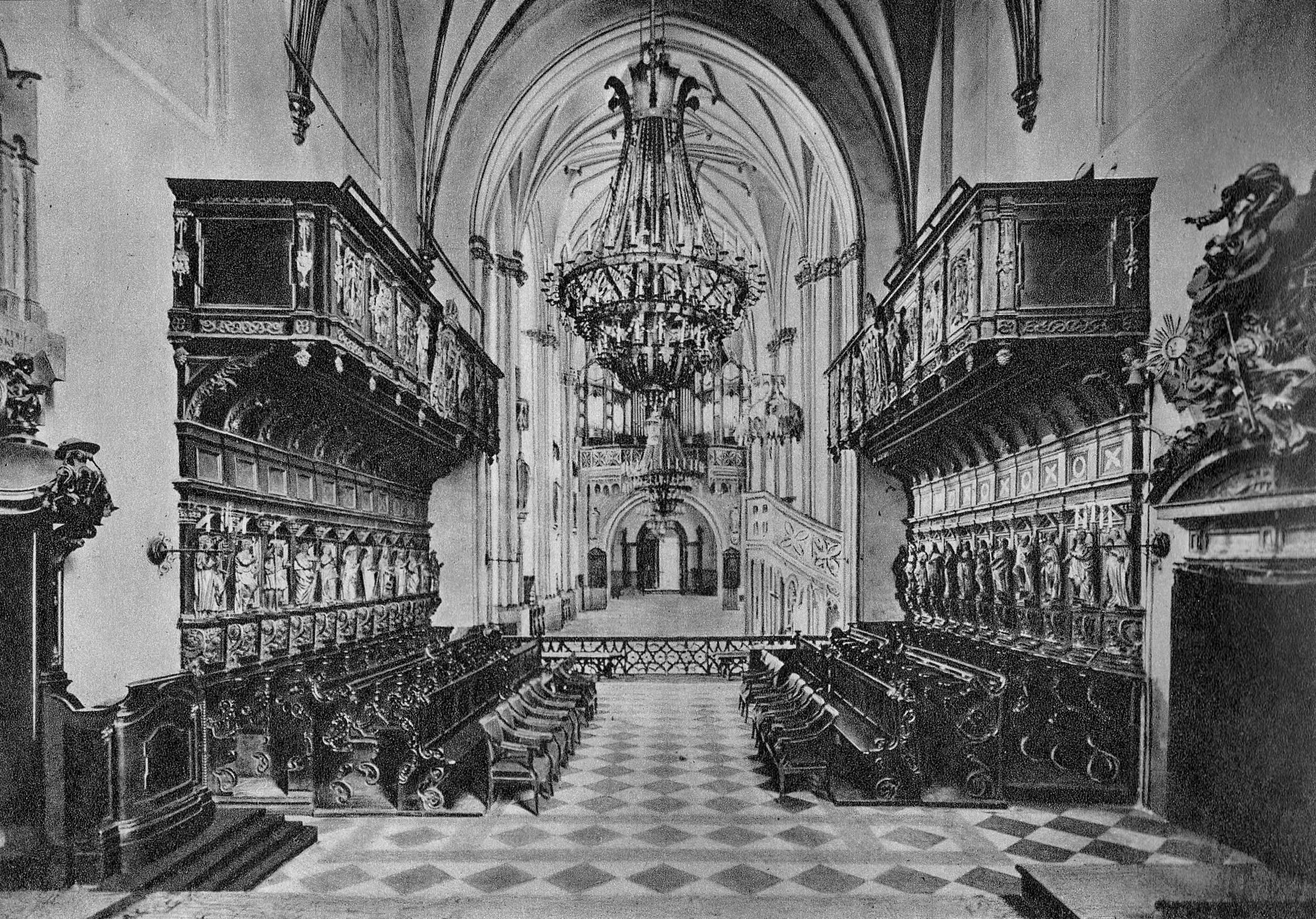 Interior of St. John's Cathedral in Warsaw (view from the presbytery)